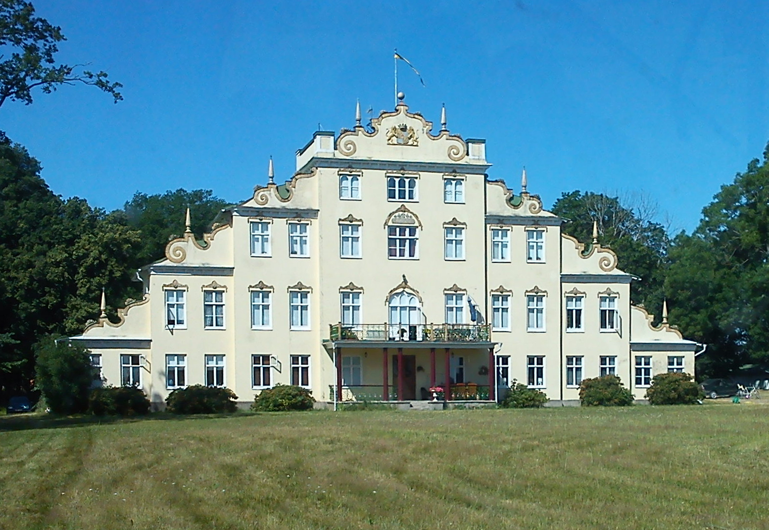 Cropped and adjusted version of Stävlöslott.jpg